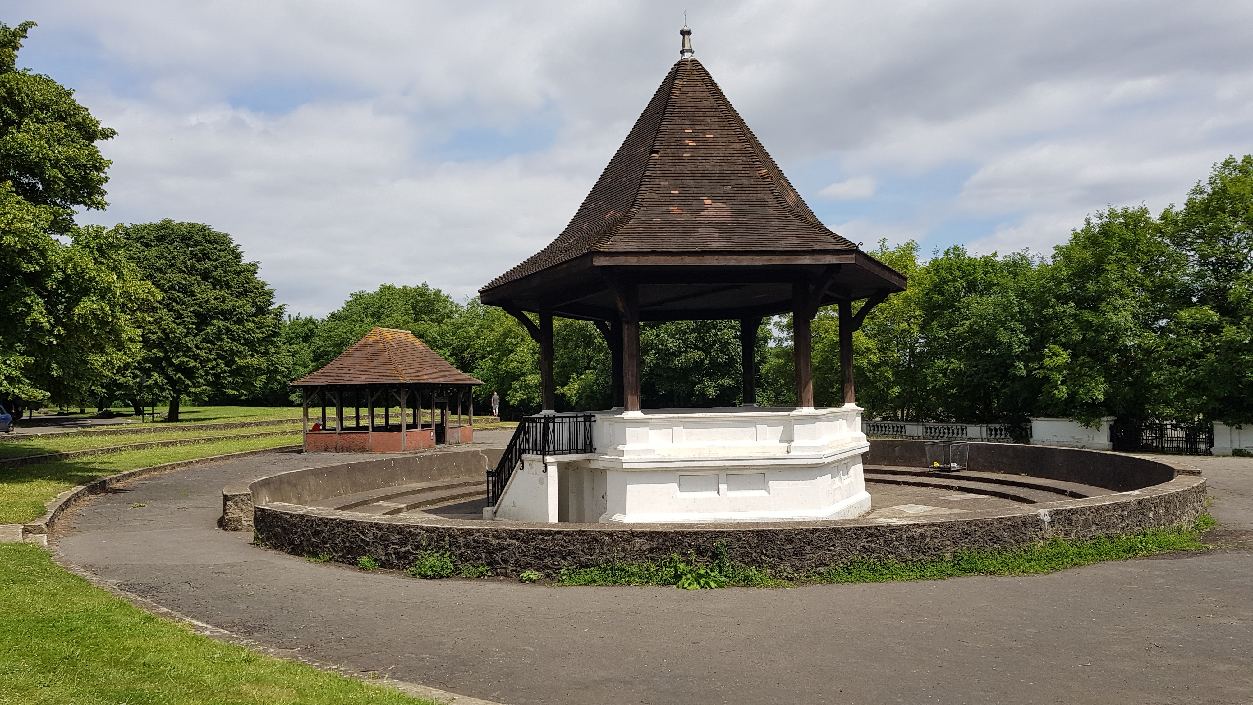 Dukes Meadows, a large park on the banks of the Thames in Chiswick, London